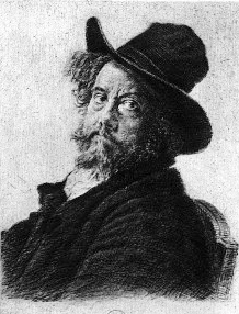 Self-portrait (1890) of French painter and engraver Marcellin Desboutin (1823-1902)